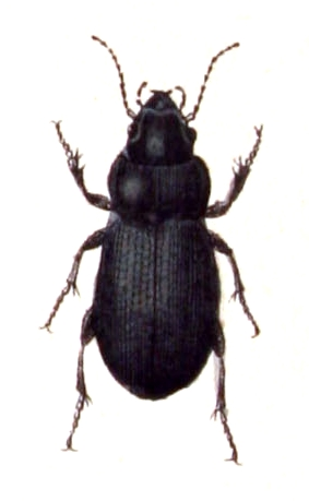 Zabrus spinipes, from Calwer's Käferbuch, Table 6, Picture 9. Taxonomy was updated to 2008, using mostly the sites Fauna Europaea and BioLib. Please contact Sarefo if the determination is wrong!